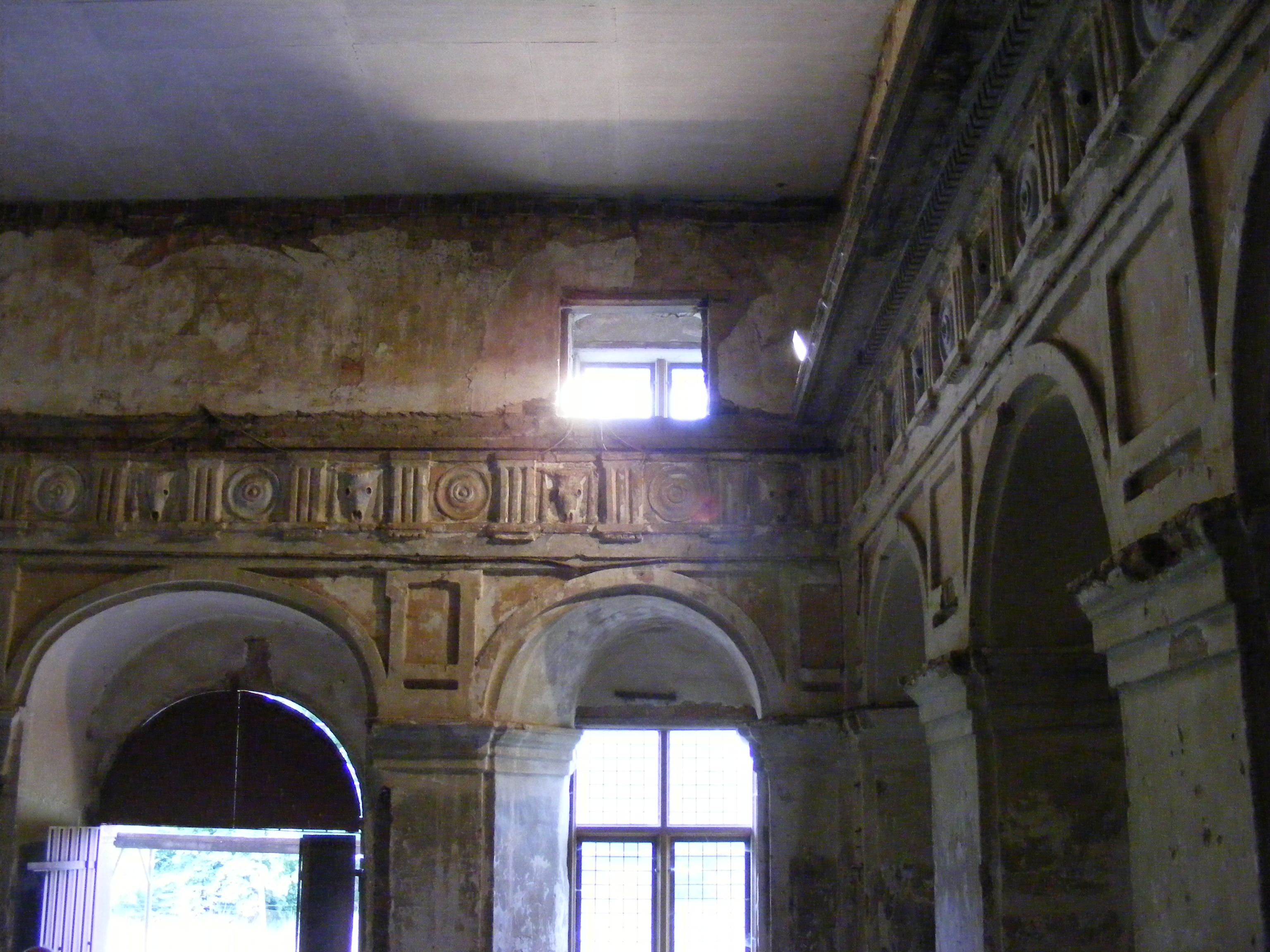 Rossewitz Castle, Mecklenburg. Entrance Hall (July 2008)